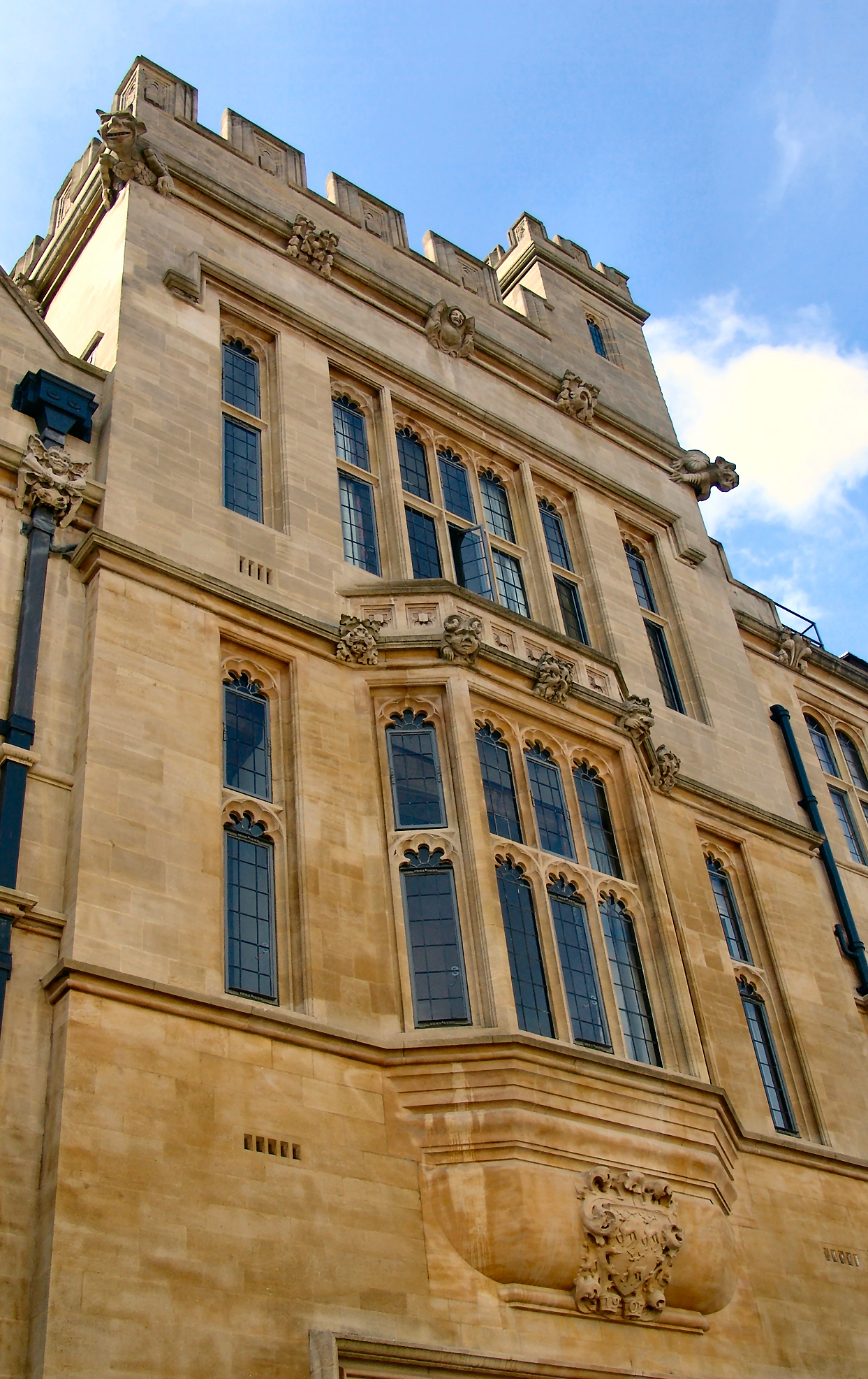 The tower above the Ship Street entrance to Jesus College, Oxford